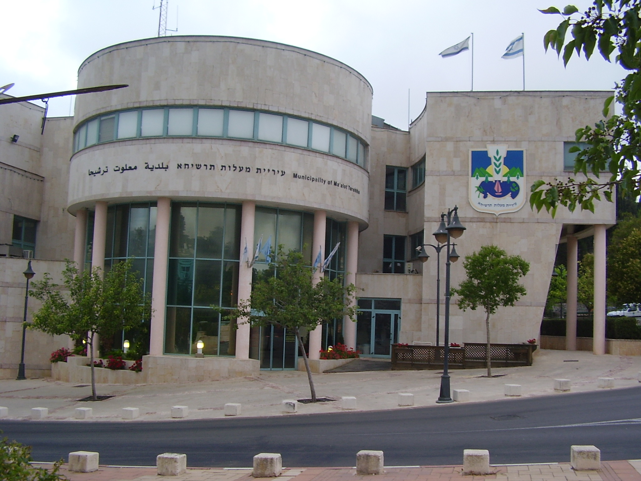 Municipality of Ma'alot-Tarshiha